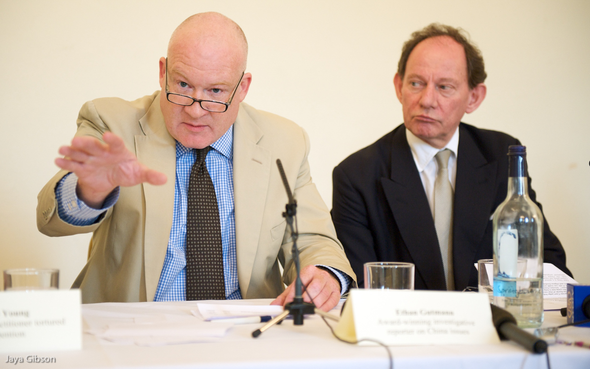 Ethan Gutmann Foreign Press Association Press Conference 28th April 2009